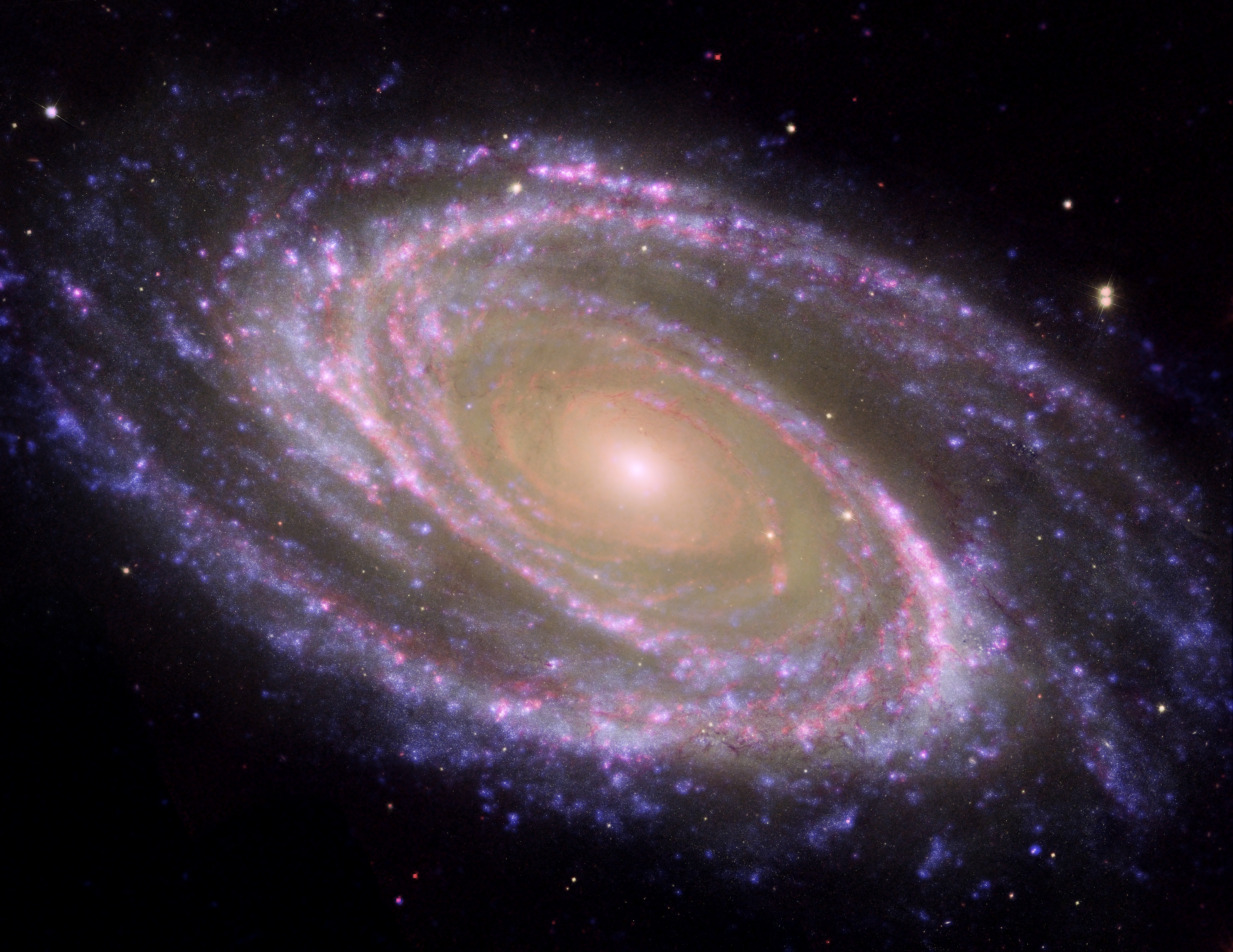 Multiwavelength M81